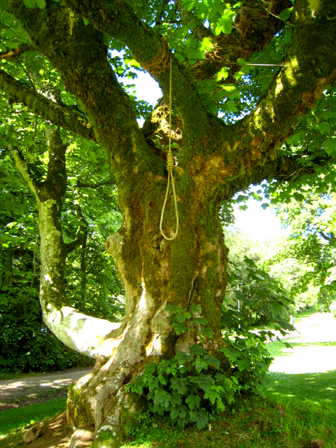 The Gallows tree, known as the Dule Tree, at Leith Hall The Dule Tree in the grounds of Leith Hall is an ancient sycamore sitting on a prominent mound and was once used as a gallows tree for those convicted under "Baron's Law". Dule is a Gaelic word meaning "grief" and suggests that the site was once used as a place to mourn the dead of the clan.